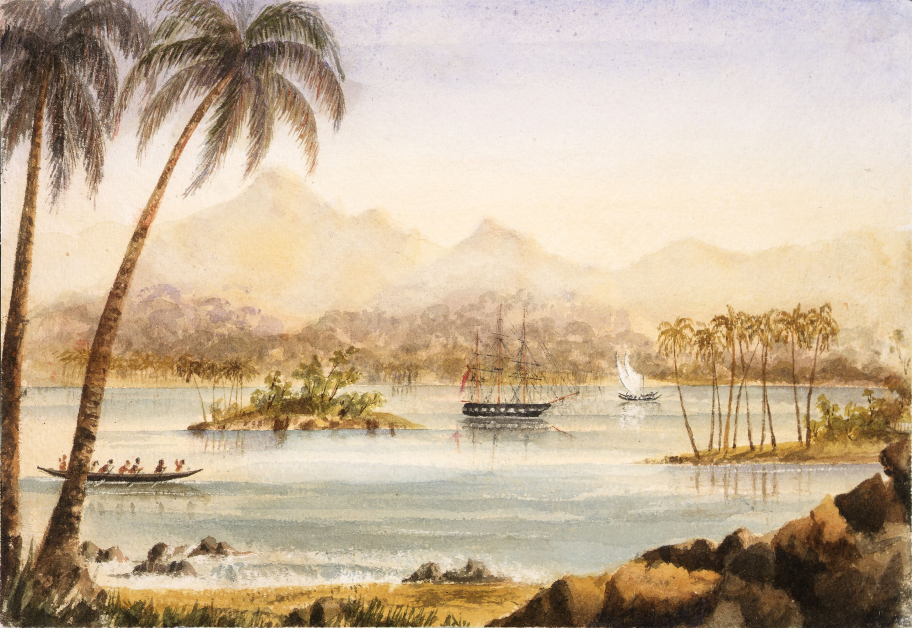 Shows a view of a bay with a small wooded island in it. In the centre is a sailing ship (the Iris) with its sails furled. Beyond the ship are two triangular-sailed boats or a double-hulled sailboat. In the left foreground is a canoe containing about seven rowers. In the immediate left foreground at far left are two palm trees on the shore, and other palms are grouped on a low headland at the right.